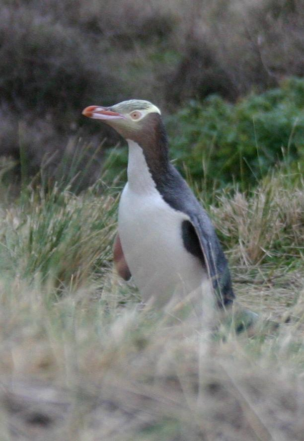 Yellow-eyed Penguin Megadyptes antipodes, Peninsula Otago, New-Zealand